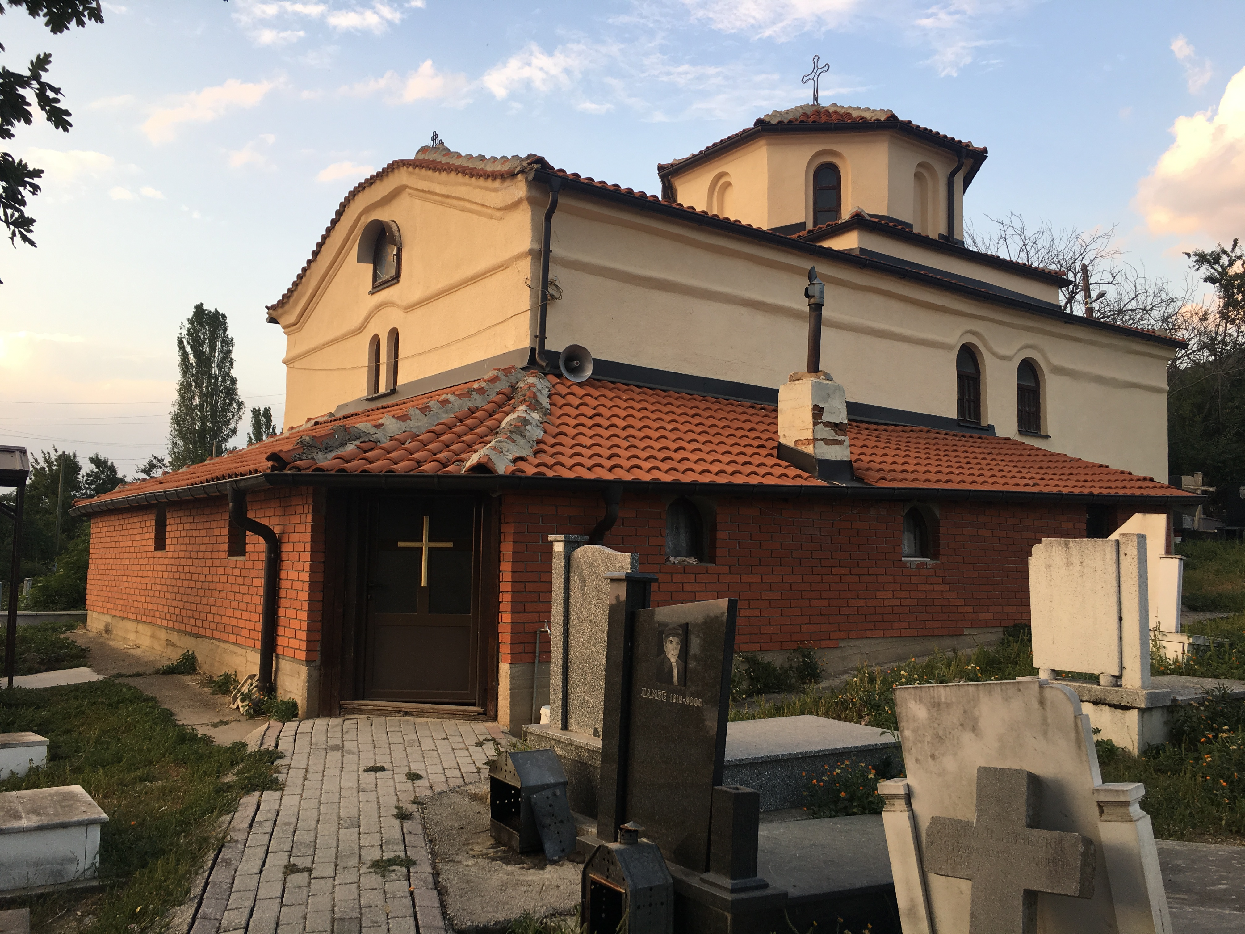 St. Menas Church in the village of Gorno Konjsko